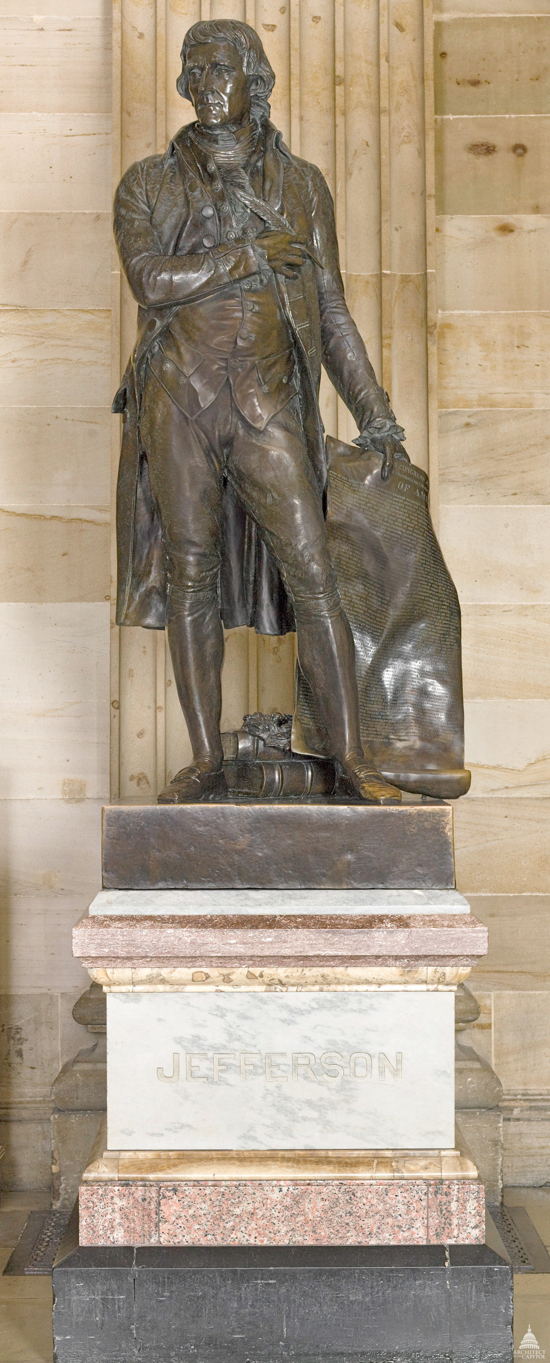 The statue of Thomas Jefferson by Pierre-Jean David d’Angers located in the Capitol Rotunda was the first full-length portrait statue placed in the Capitol. Its bronze medium was unusual in early 19th-century America, where sculpture was more commonly carved in marble. The statue was presented by Uriah Phillips Levy to the Congress in 1834 as a gift to the American people. For more information visit: This official Architect of the Capitol photograph is being made available for educational, scholarly, news or personal purposes (not advertising or any other commercial use). When any of these images is used the photographic credit line should read “Architect of the Capitol.” These images may not be used in any way that would imply endorsement by the Architect of the Capitol or the United States Congress of a product, service or point of view. For more information visit